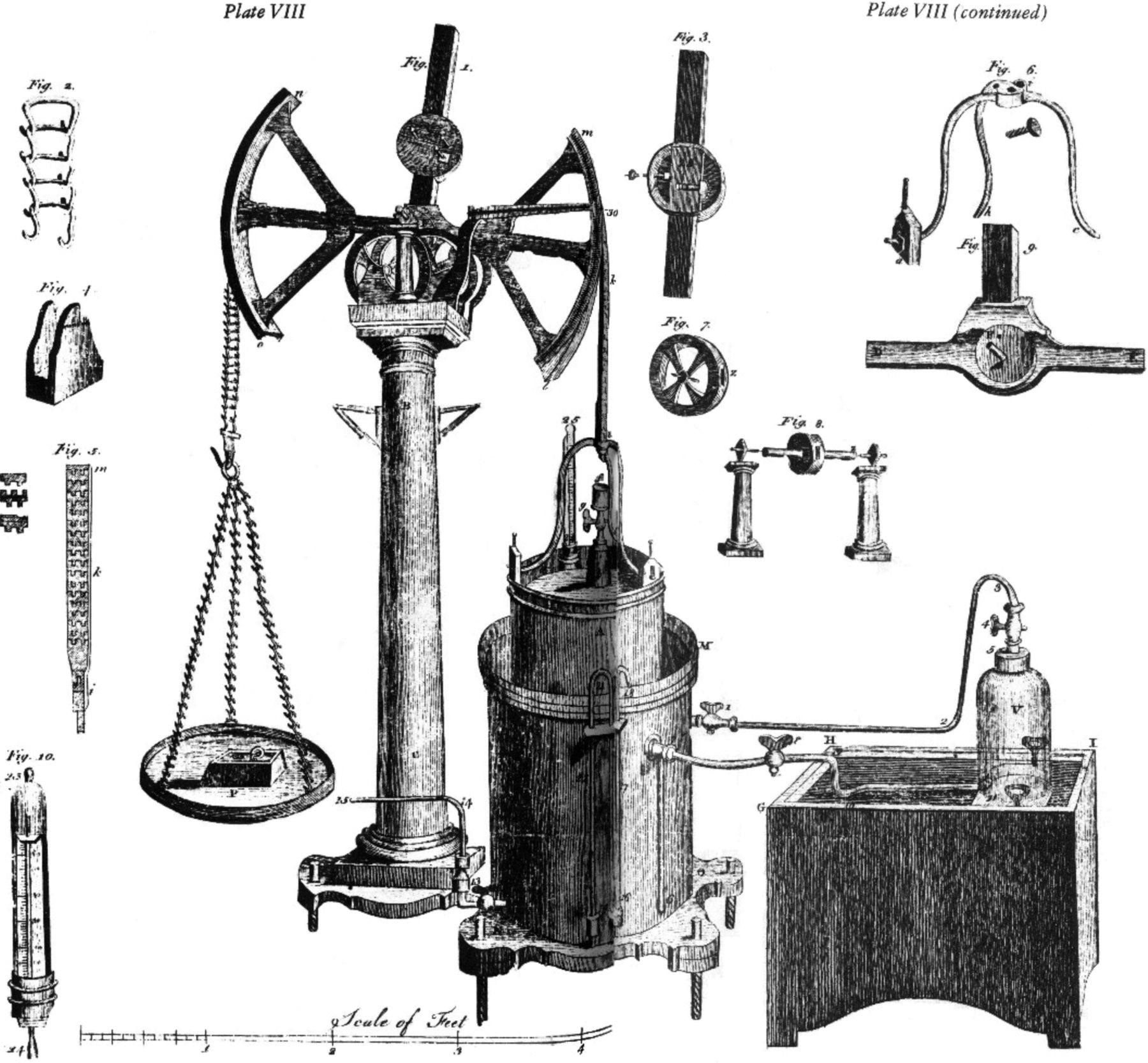 Balance for weighing reactants and products of reactions